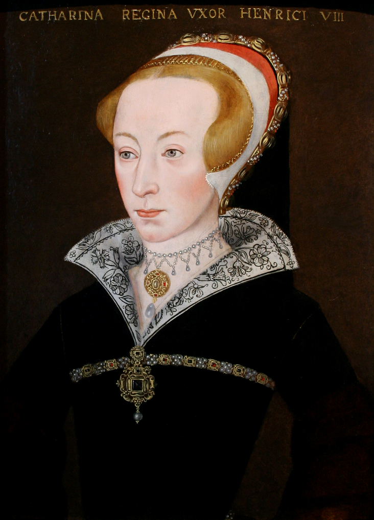 Catherine Parr, 6th wife of King Henry VIII of England. Painting of the English school after a lost portrait by Hans Eworth from c.1548.